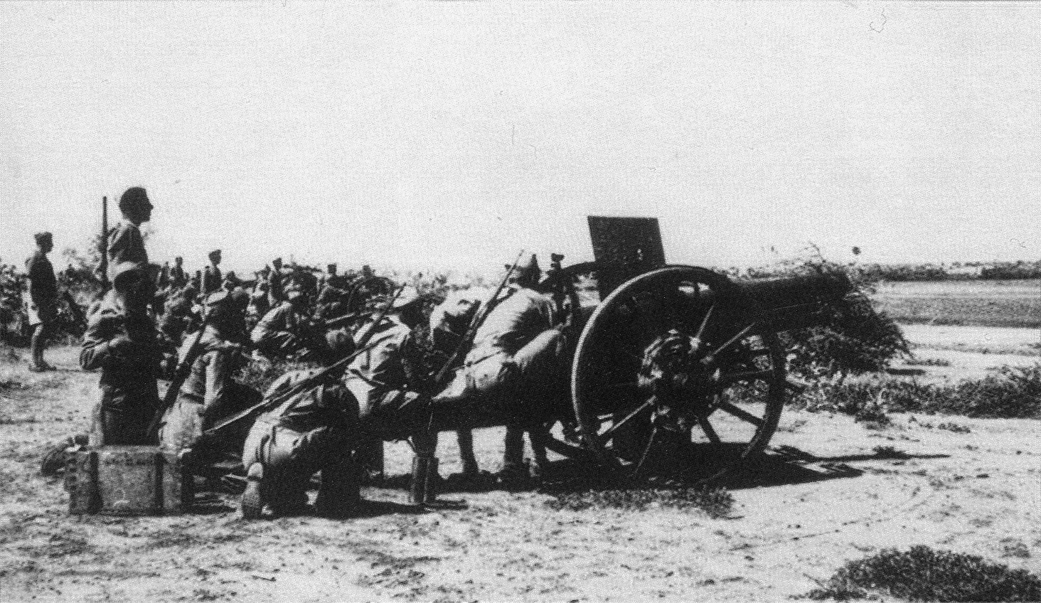 Italian artillery firing on Kassala, July 1940.